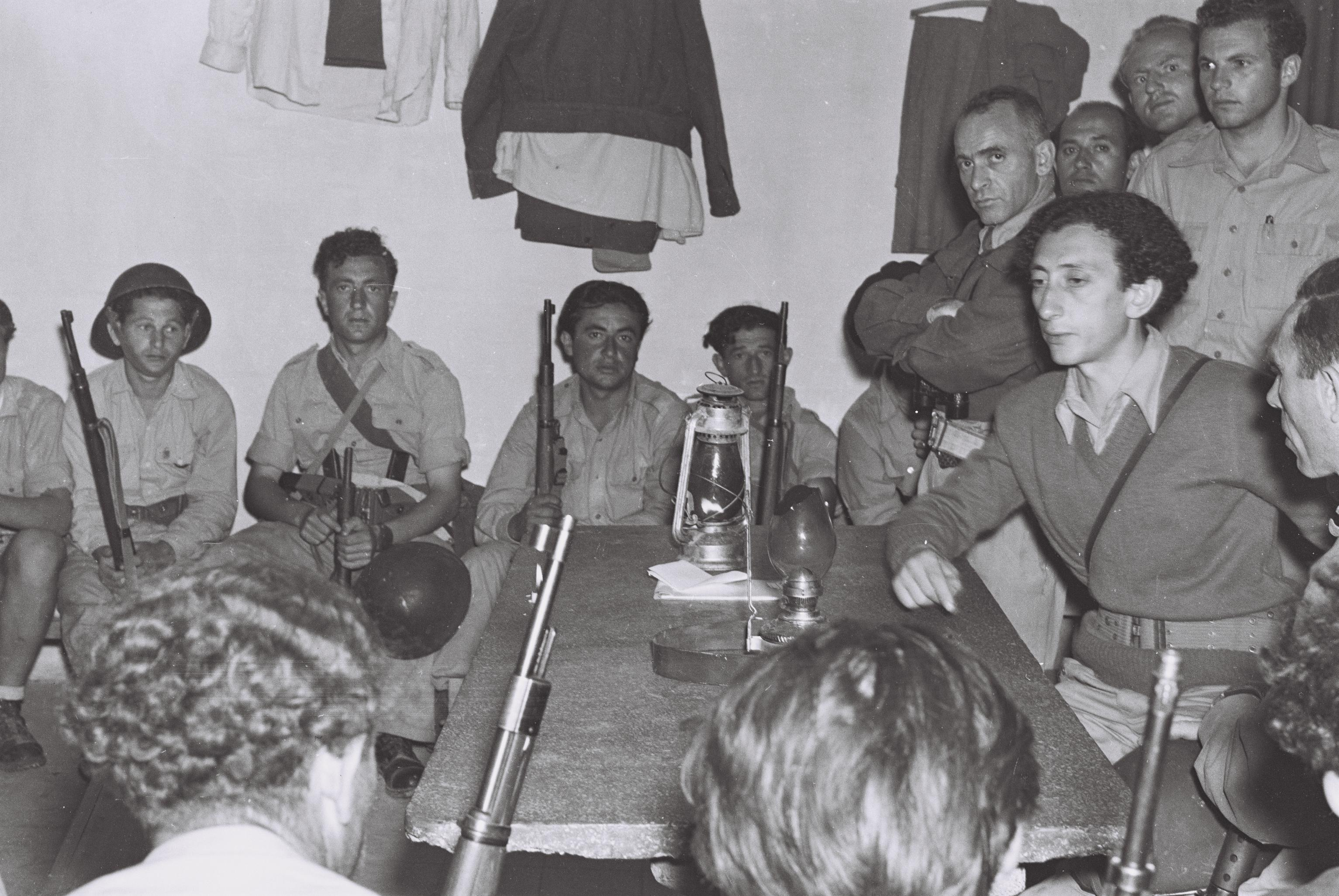 Original Description: THE WAR OF INDEPENDENCE. IN THE PHOTO, ABBA KOVNER (R) BRIEFING "HAGANA" MEMBERS AT KIBBUTZ YAD MORDECHAI.